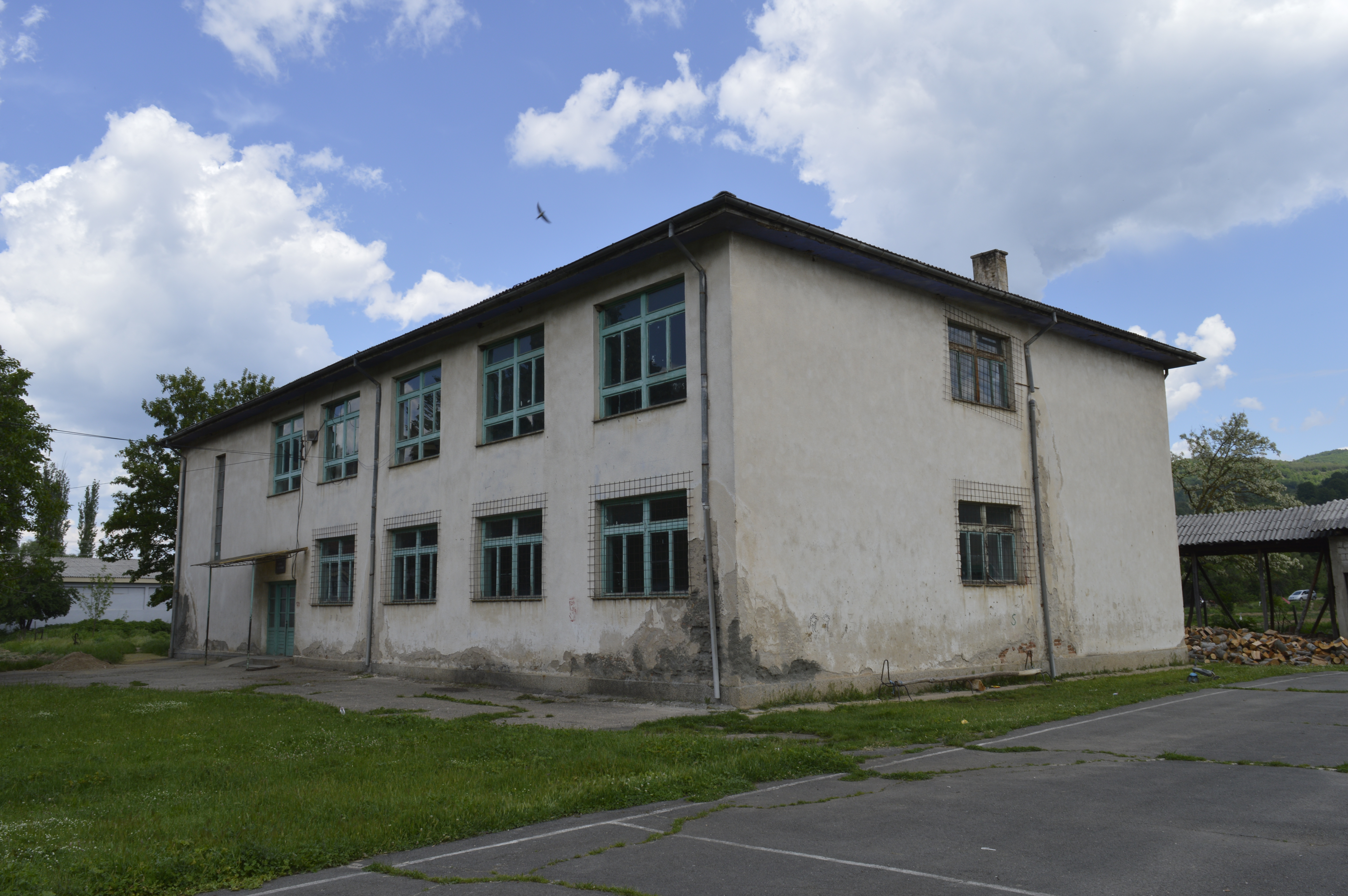 View of primary school of the village Razlovci